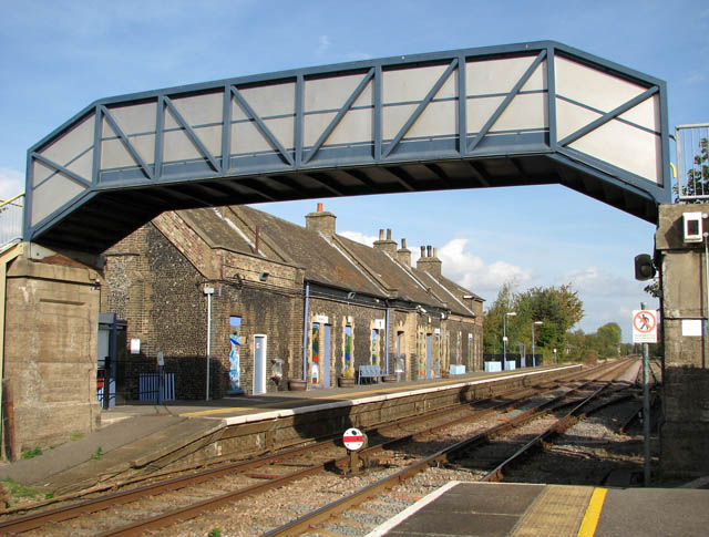 Brandon railway station - the footbridge A disk-type ground signal can be seen in the foreground. Brandon railway station serves the town of Brandon in Suffolk but the station is actually situated in Norfolk - on the other side of the county boundary. Before the re-introduction of a direct service between Cambridge and Norwich by Anglia Railways, Central Trains served the station as a stop on its route between Norwich and Liverpool, now operated by East Midlands Trains. Presently the station is managed by National Express East Anglia, with services east to Thetford, Attleborough, Wymondham and Norwich, and west to Ely and Cambridge. East Midlands Trains operates a single service to Norwich. The station has been un-staffed since the 1980s. An initiative was launched in January 2006 by the Friends of Brandon Station aiming to improve the appearance and facilities, promote the fast and frequent services to Norwich, Ely and Cambridge, and to seek a new tenant for the station buildings